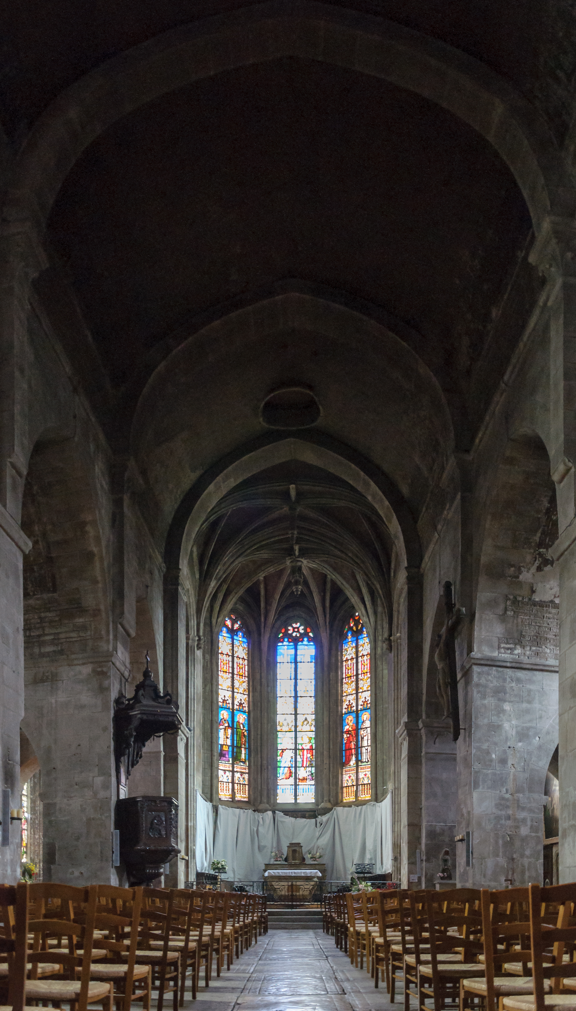 St Nicolas church, Châtillon-sur-Seine, Côte-d'Or department, Burgundy, France : inside view of the nave and choir. .